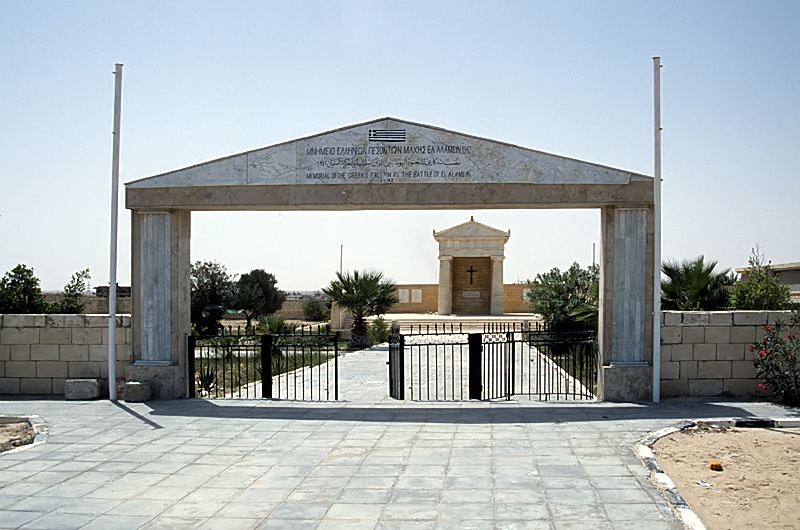 Greek War Cemetery, el-Alamein, Egypt